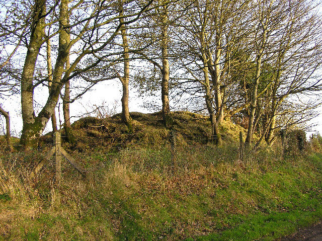 Rath at Blackfort. Very conveniently located along the side of the road, up a steep hill leading from Blackfort Bridge - no sign of the fairies!